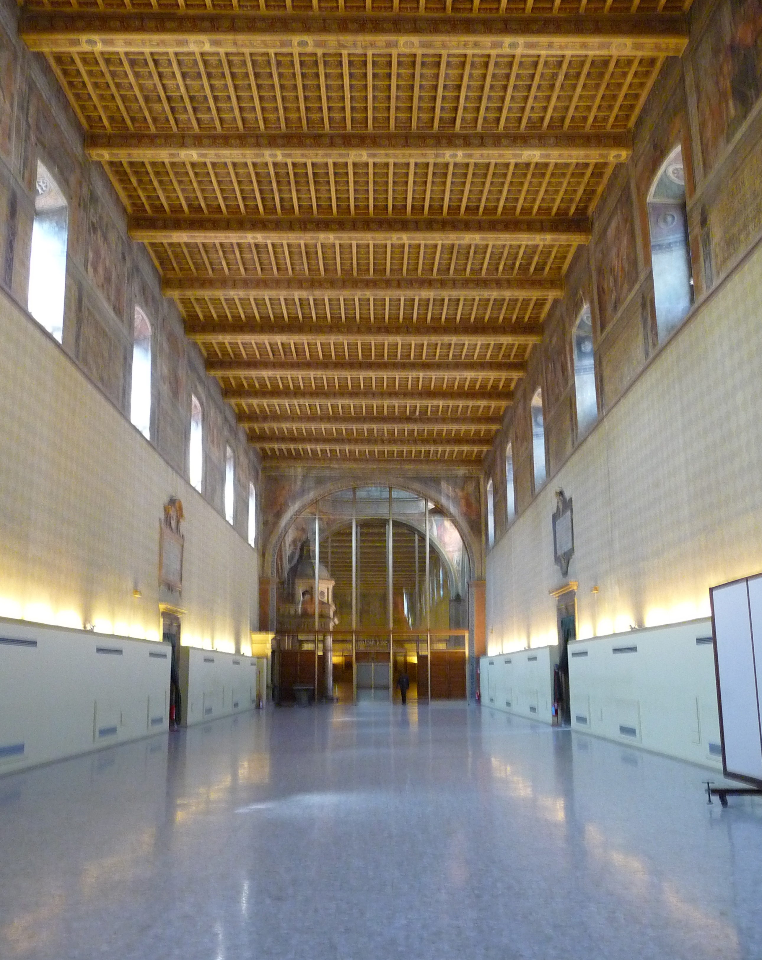 Santo Spirito in Sassia in Rome; Corsia Sistina, Sala Baglivi.